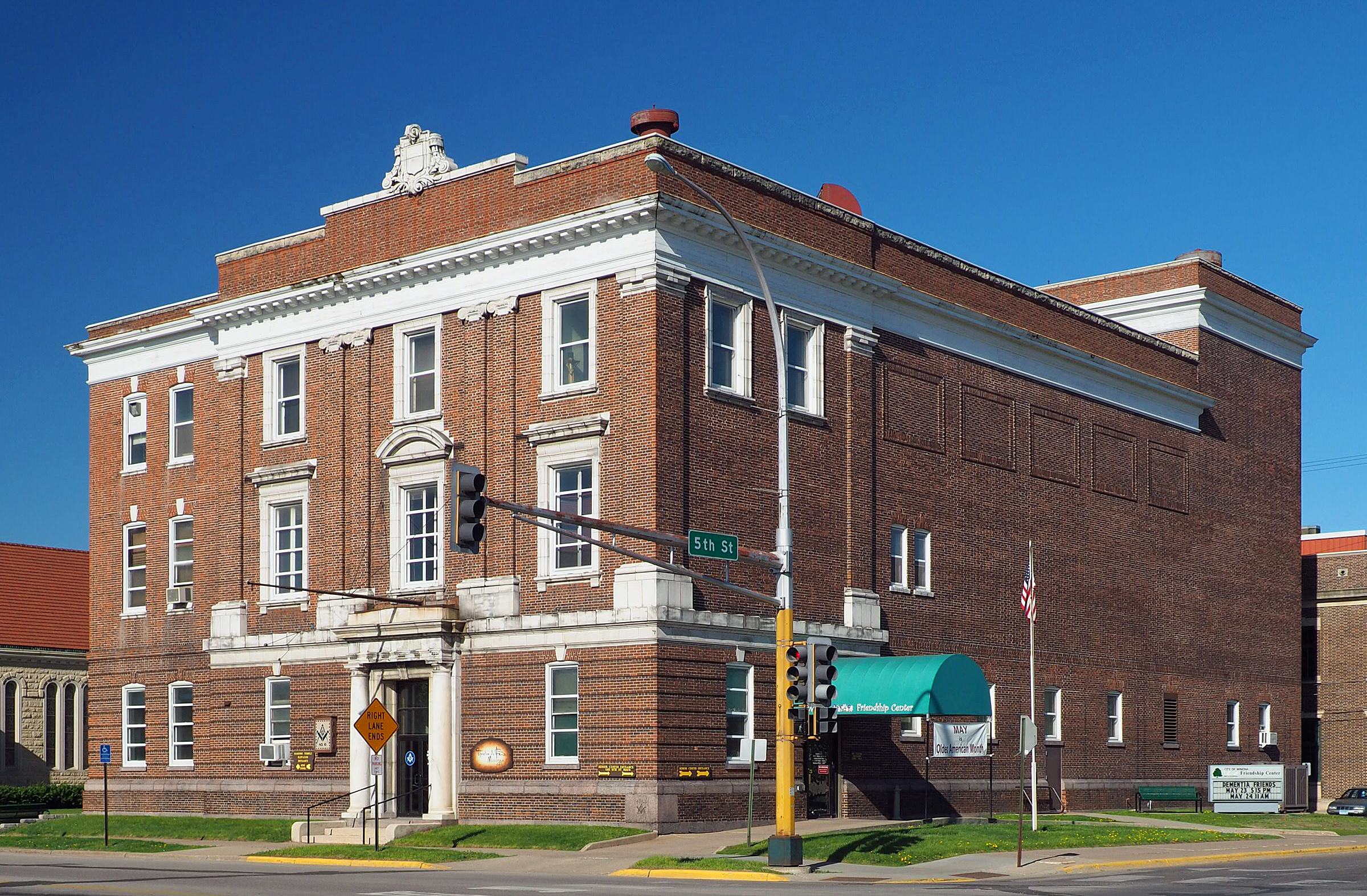 Winona Masonic Temple, 255 Main St, Winona, Minnesota, United States. Viewed from the northeast.